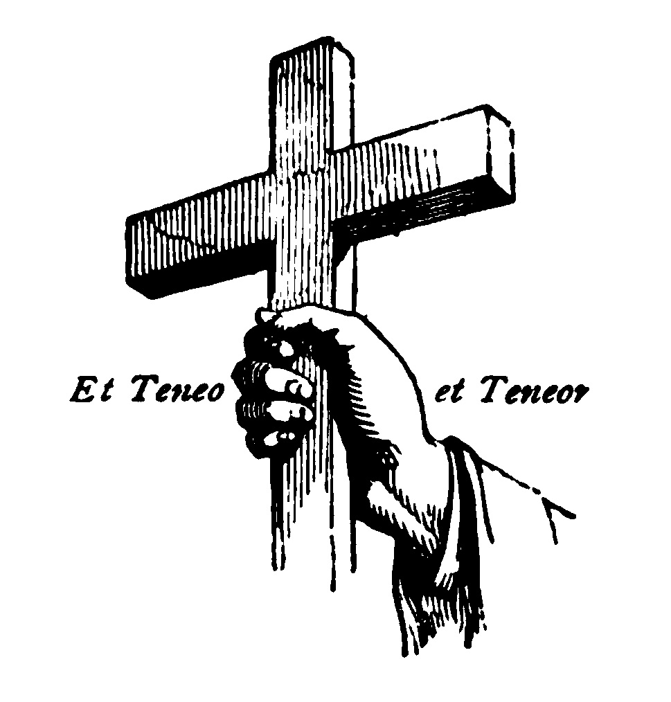 The symbol of a hand holding a cross was used as the frontispiece of the books published by Dora Greenwell who lived from 1821–1882. She composed poetry, biographies, and essays, becoming popular in the 1860s. The words are "Et teneo et teneor" which in Latin mean "I hold and am held". (Comment: it is not a frontispiece. It is a cropped trademark from the tile page.) Mike Hayes (talk) 05:37, 4 February 2015 (UTC)